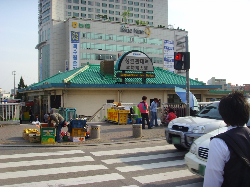 Gyeongbu Line Sungkyunkwan Univ. Station